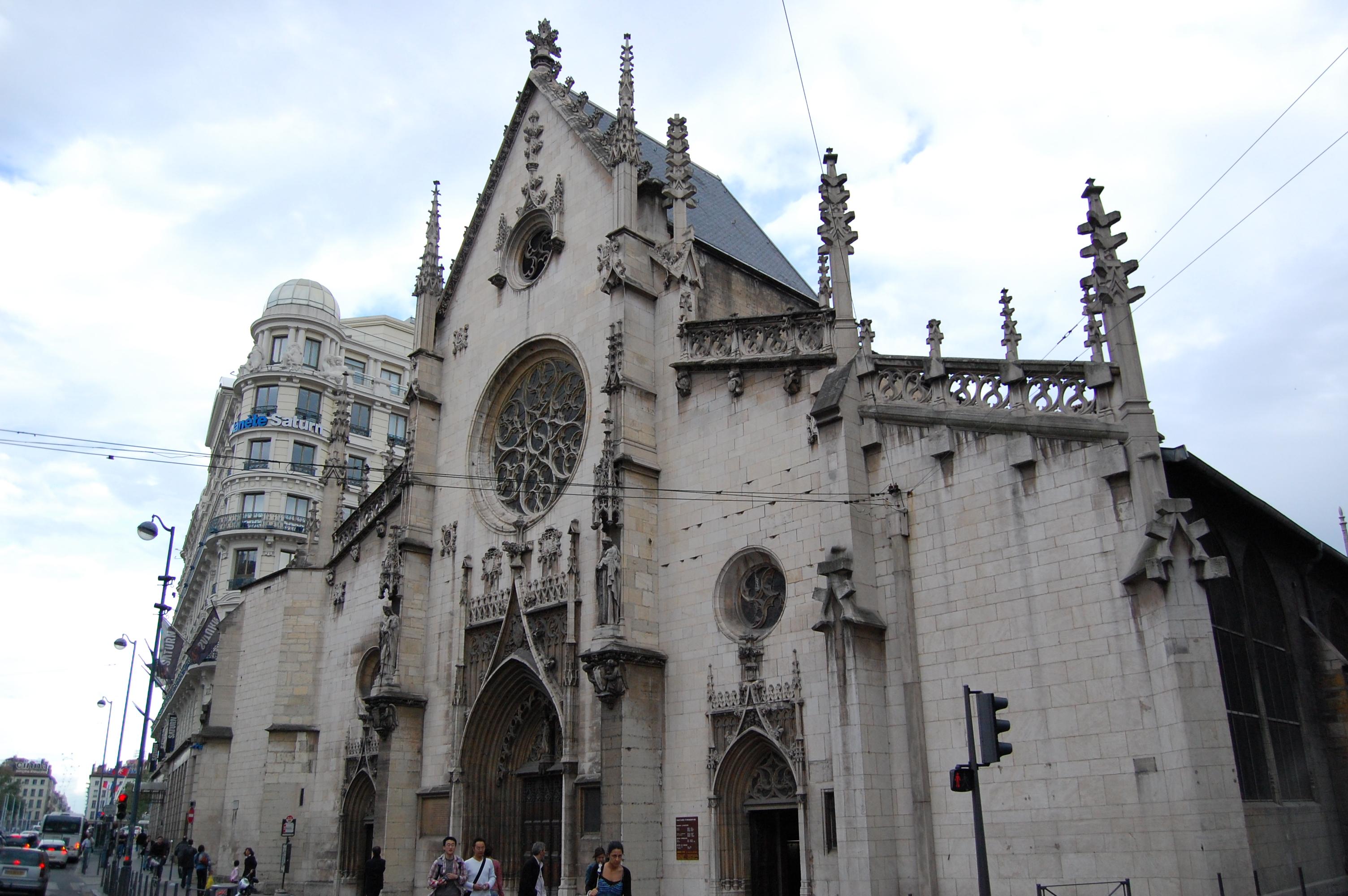 Eglise St Bonaventure in Lyon